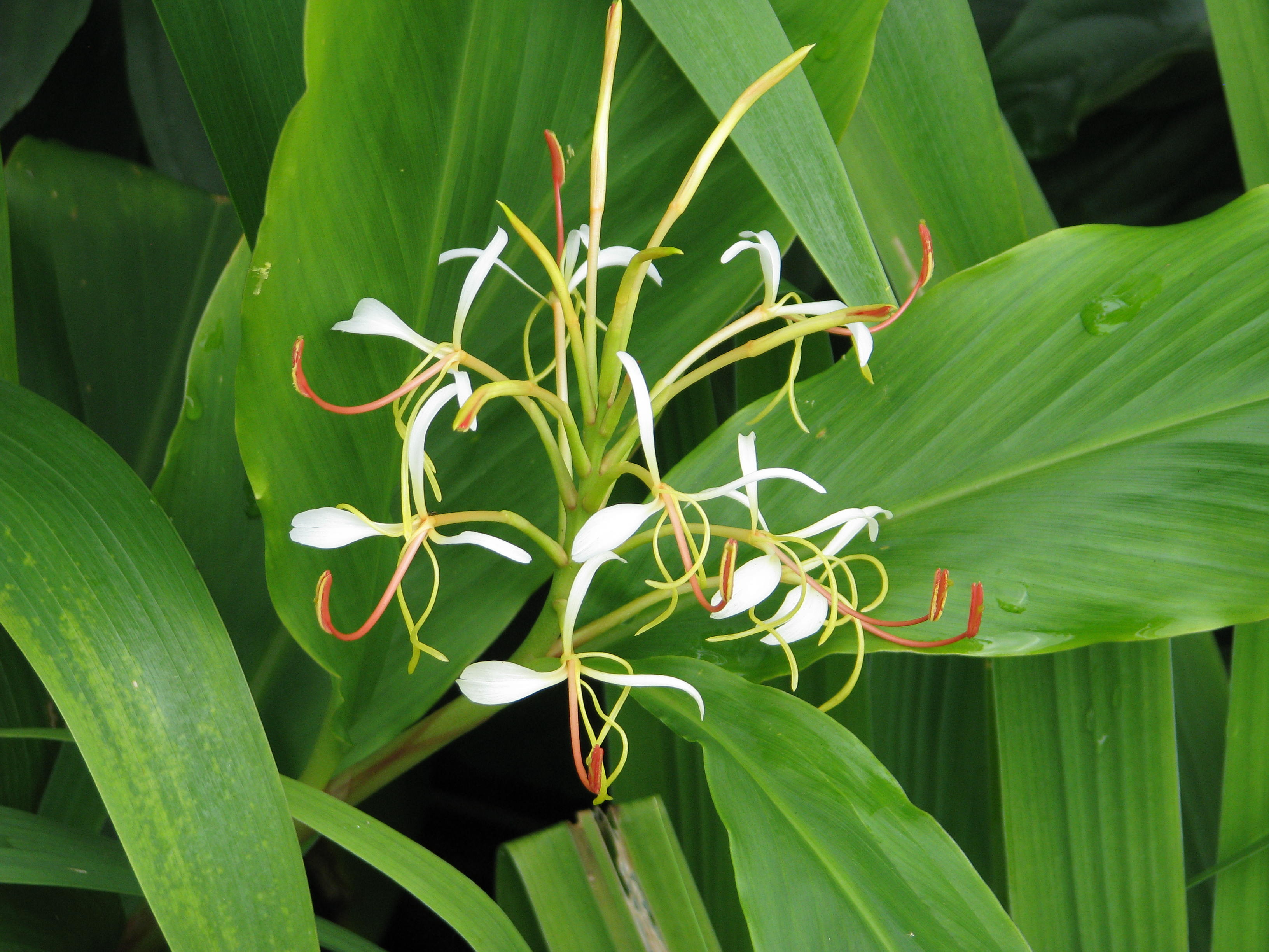 First flowers - a little later, larger and less fragrant than the yunnanense